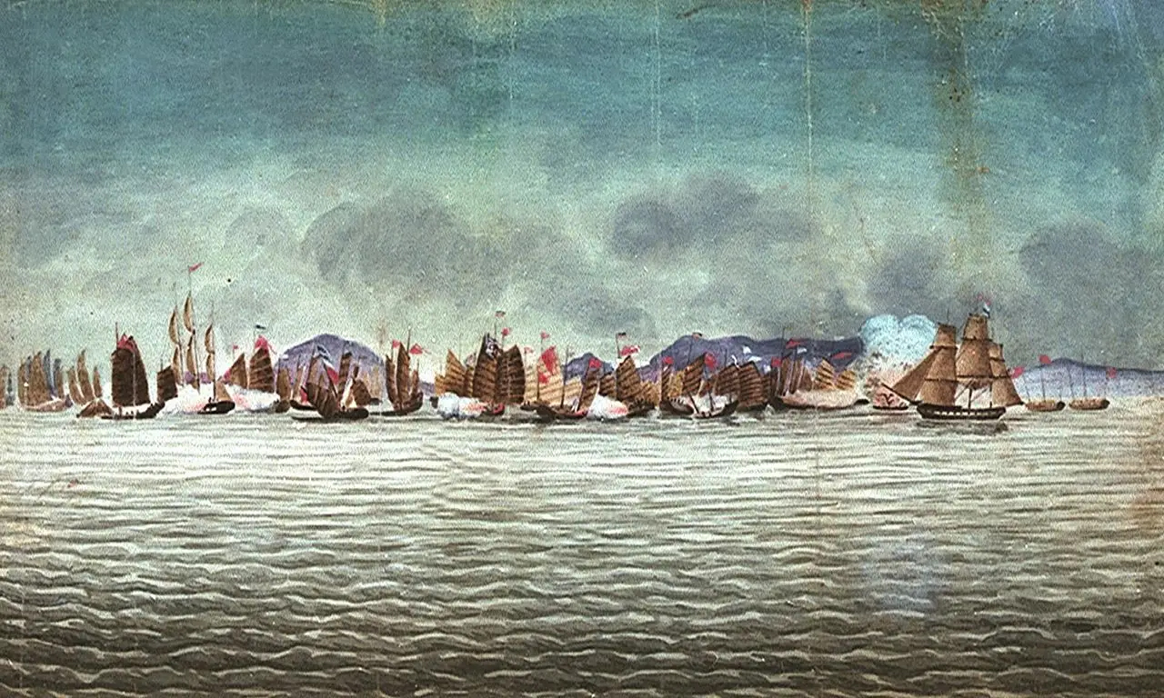 Watercolor of HMS Volage and HMS Hyacinth confront Chinese war junks at Chuenpee, 3 November 1839.